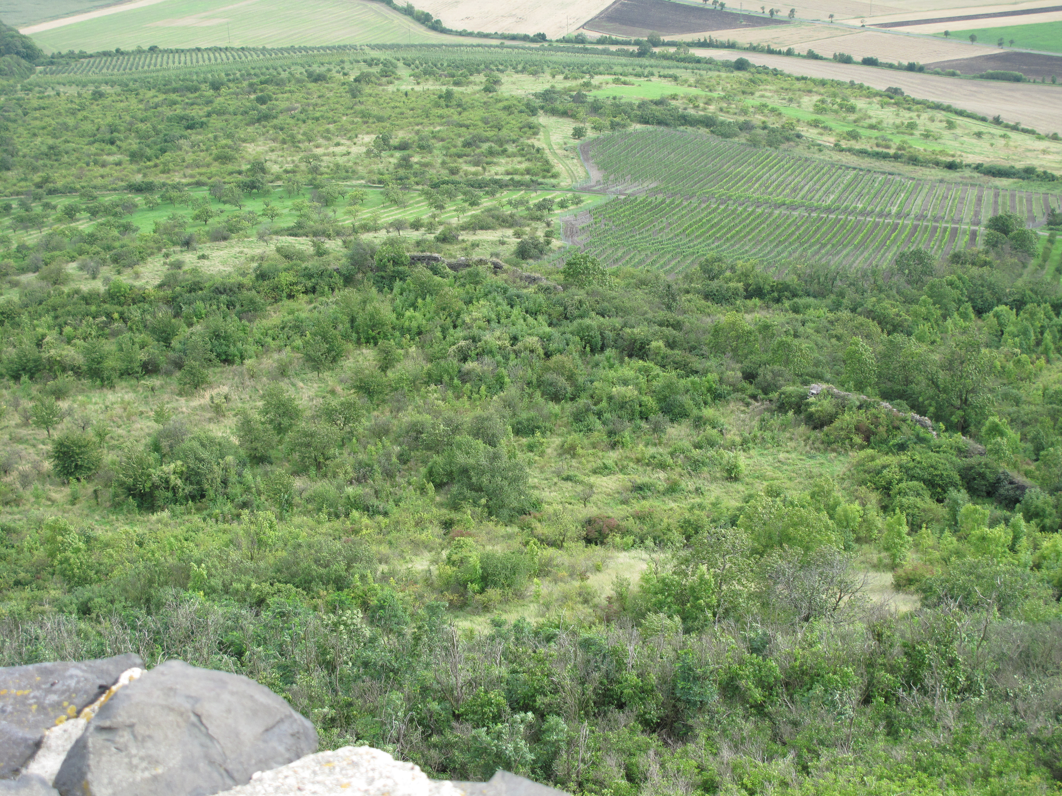 Rests of undercastle setlement as seen from Hazmburk Castle (ruin), Litoměřice District, Czech Republic.